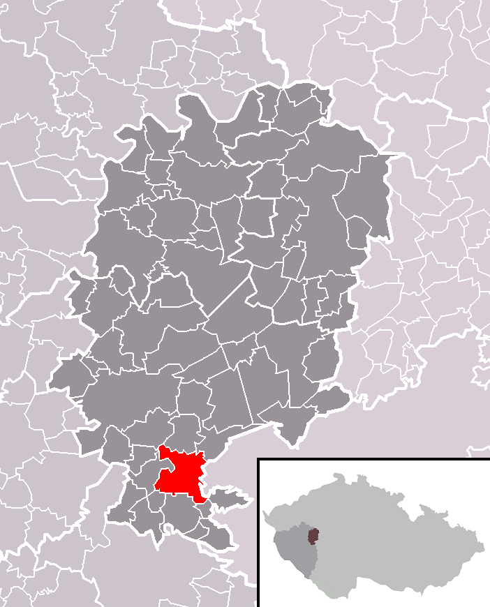 Location of Mirošov town within Rokycany District and identical administrative area of Rokycany as a Municipality with Extended Competence.